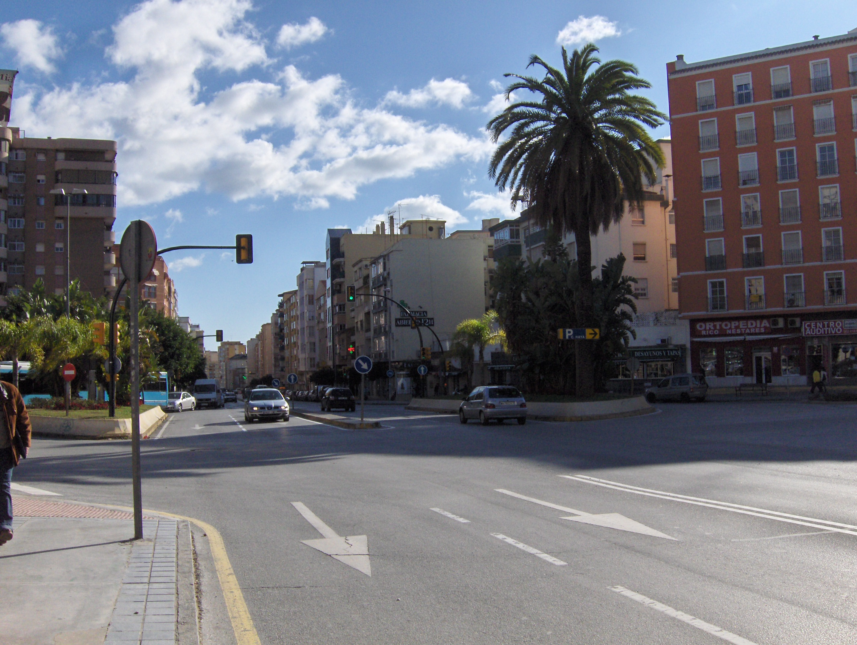 Avenida Carlos Haya, Málaga.